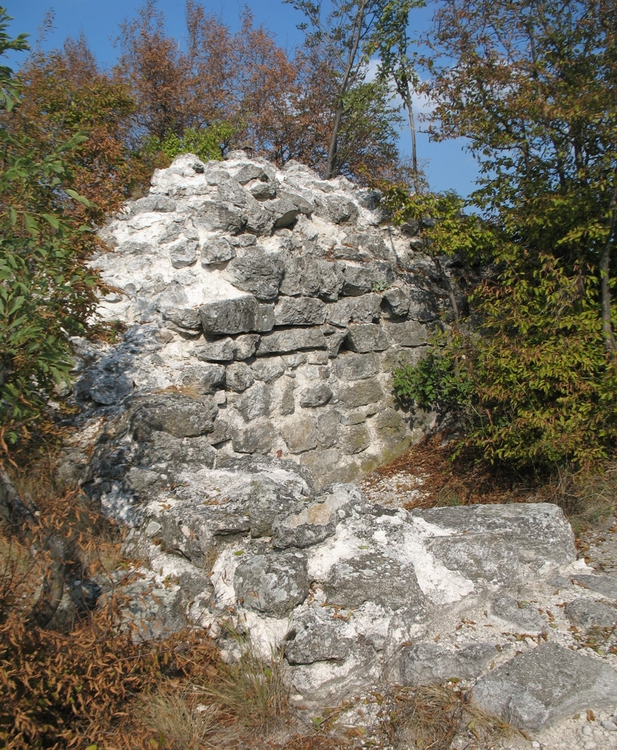 Remains of Donjon tower in Borač fortress on Borački krš above Borač in Knić municipality,near Kragujevac,Serbia.